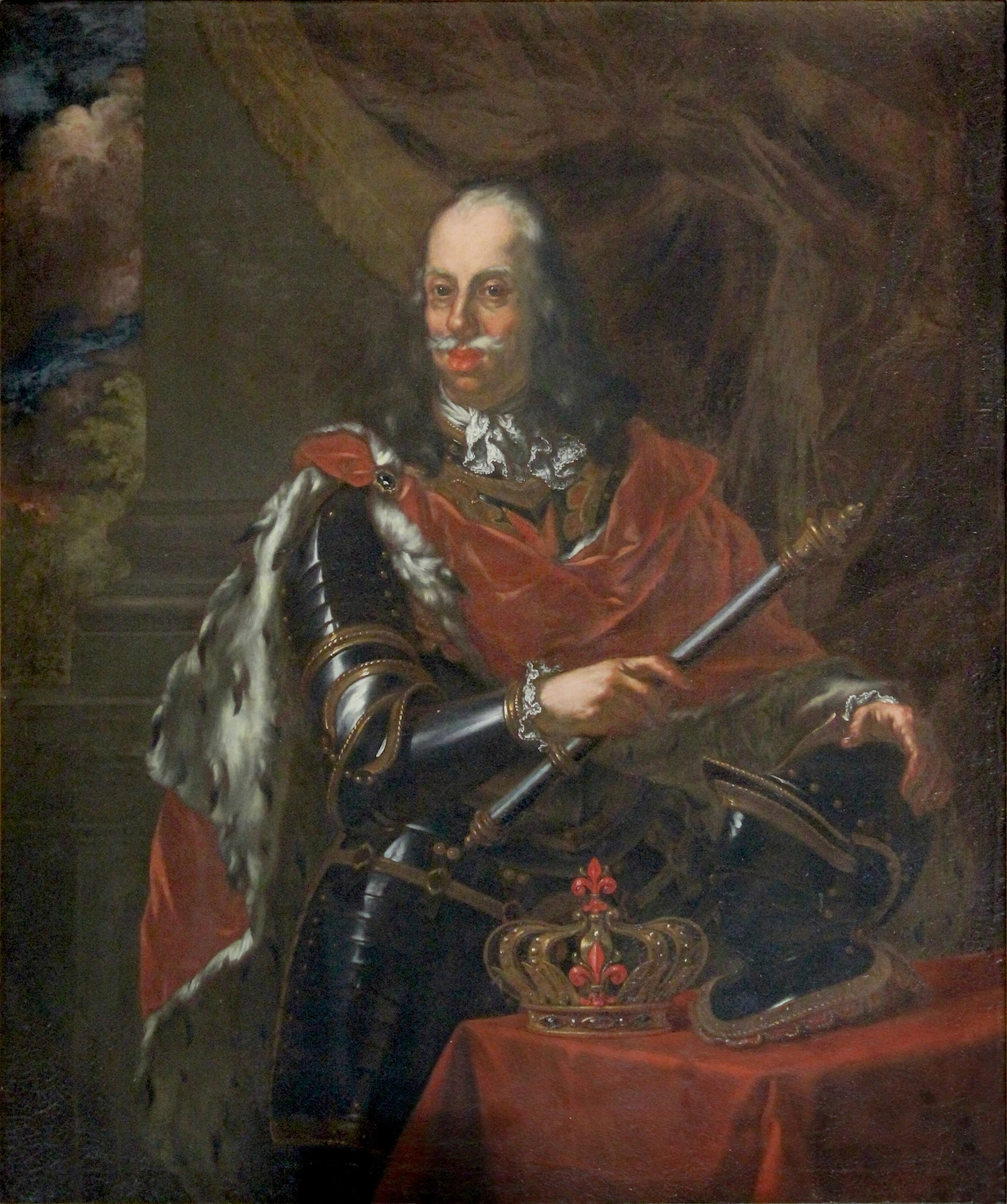 The portrait of Cosimo III de' Medici, Grand Duke of Tuscany, is part of the so-called "serie aulica" (or "of the most serene princes"), a collection of portraits of the most important members of the House of Medici. The work entered into the Uffizi Gallery together with that one of his son Ferdinando, Grand Prince of Tuscany, on 11 September 1722. The artist is not known, but the portrait planning and modus operandi have been recognized strictly close to that one of Violante Beatrice of Bavaria, Cosimo's daughter-in-law, for which the name of the painter Giovanni Gaetano Gabbiani is documented. It seems that we should attribute him all the last portraits of the "serie aulica", similar in execution.